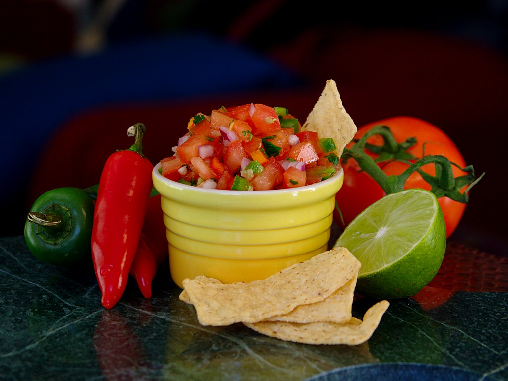 Pico del gallo salsa